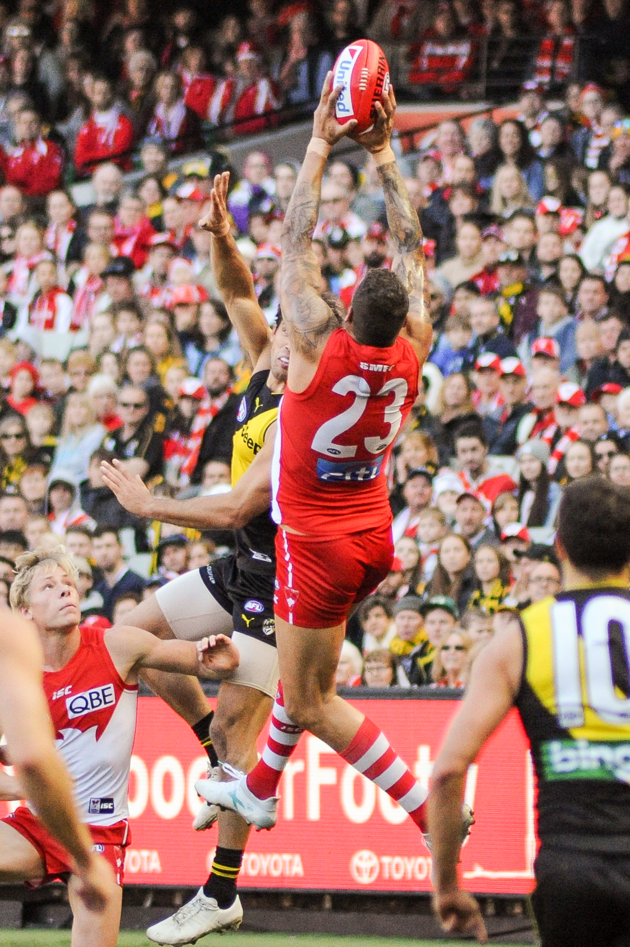 Lance Franklin marking during the AFL round thirteen match between Richmond and Sydney on 17 June 2017 at the Melbourne Cricket Ground in Melbourne, Victoria.